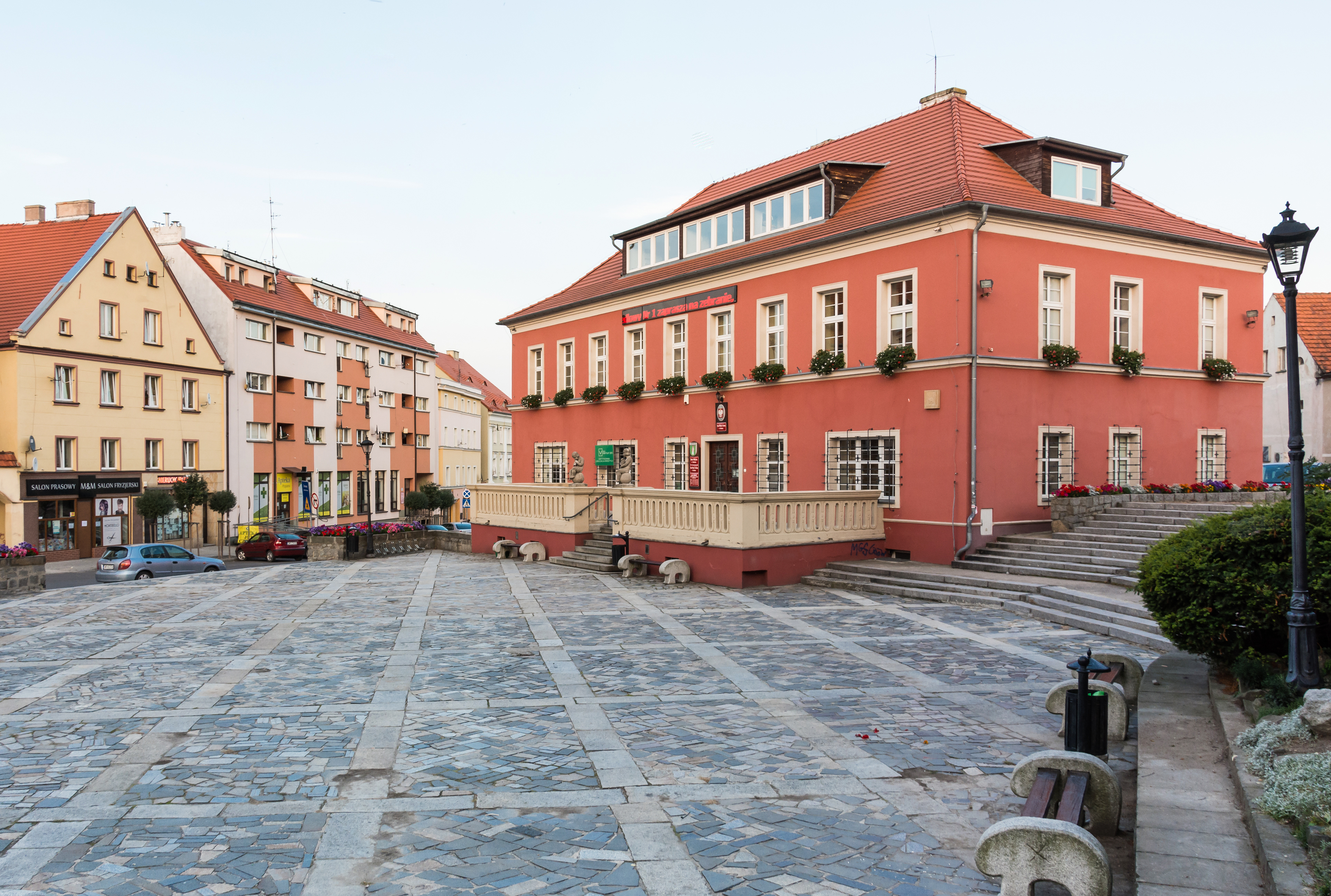 Gmina Office in Sobótka